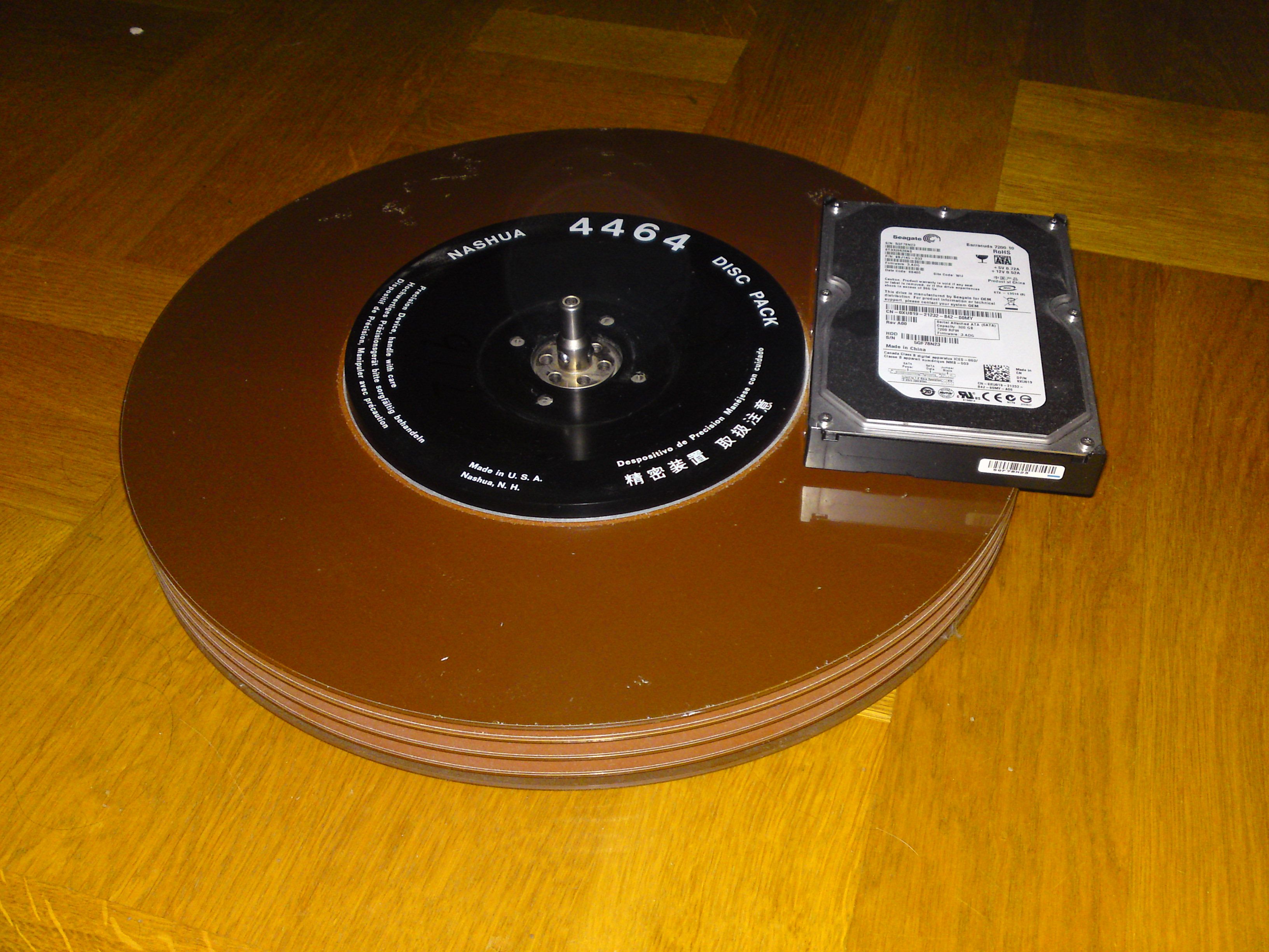 Disk pack manufactured by Nashua, USA. 3,5" modern harddrive for comparison.